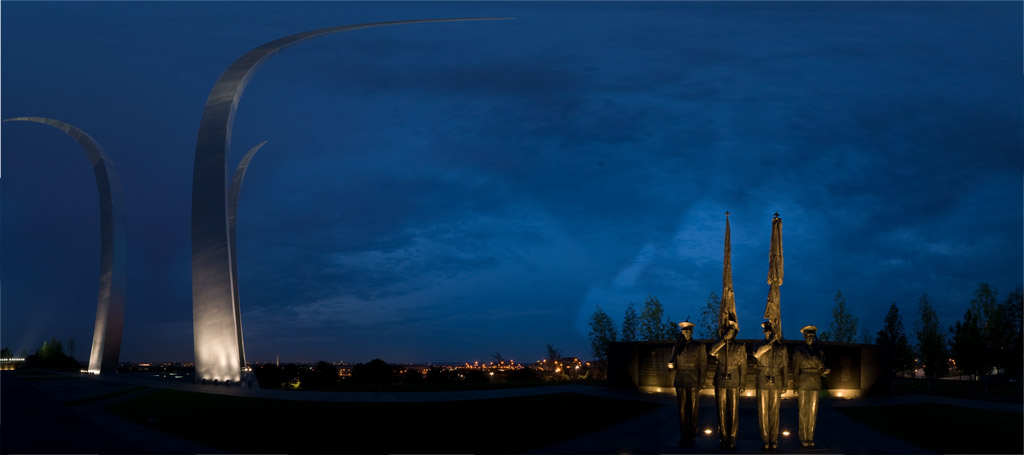 National Air Force Memorial